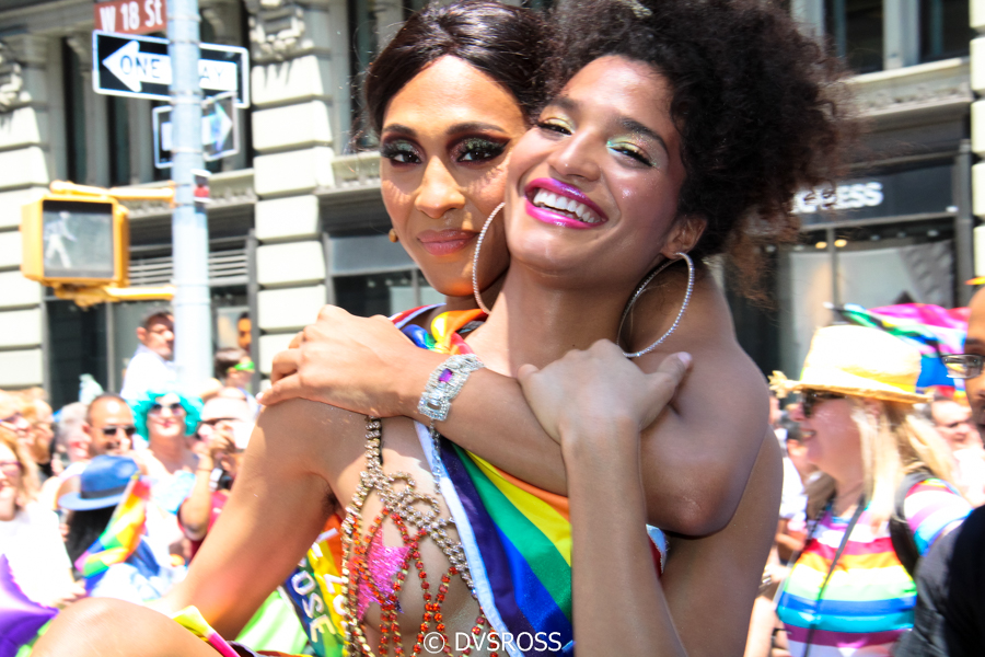 New York Pride 50 - 2019-134